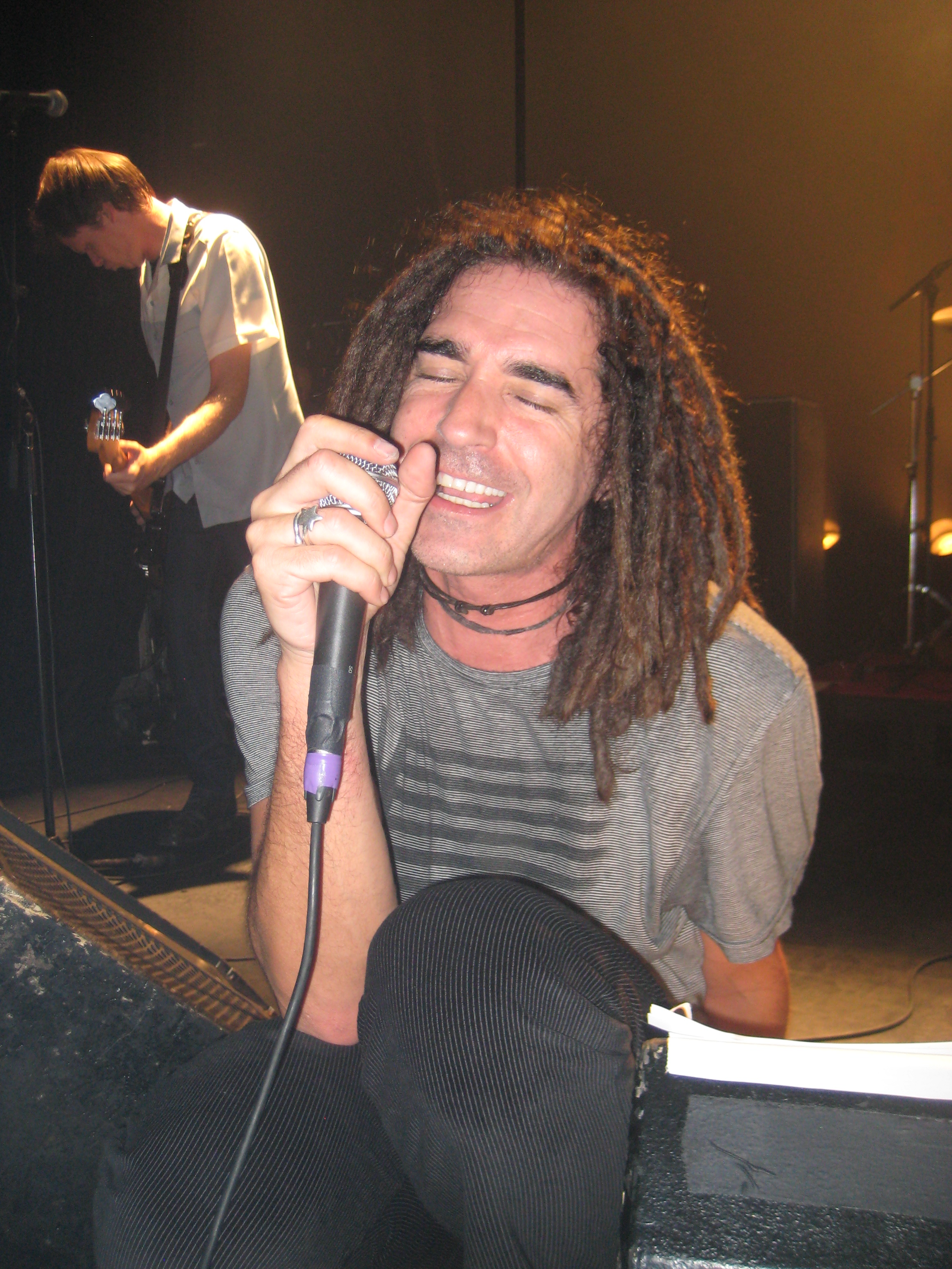 John Kastner singing for the Asexuals, October 2010.